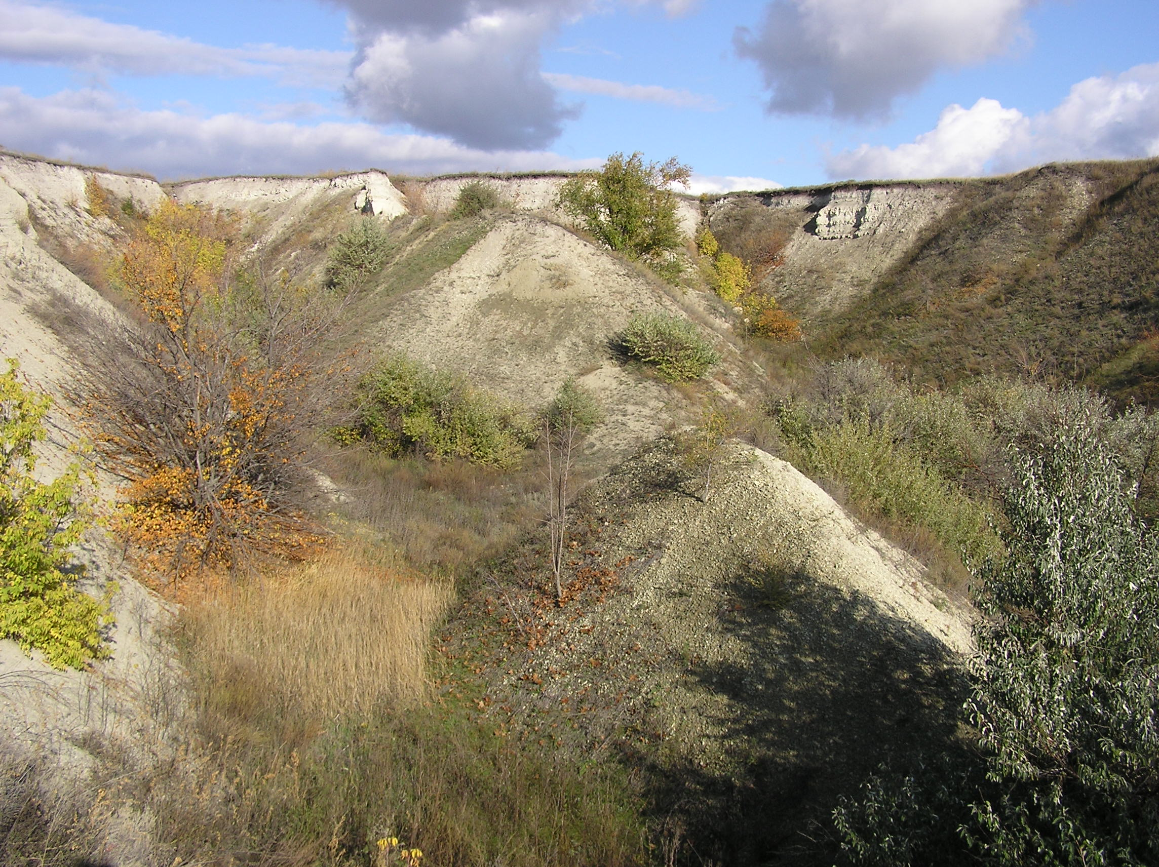 Inside a gully. Regional Nature Monument "Budanova Gora". Vicinity of Saratov City, Russia.